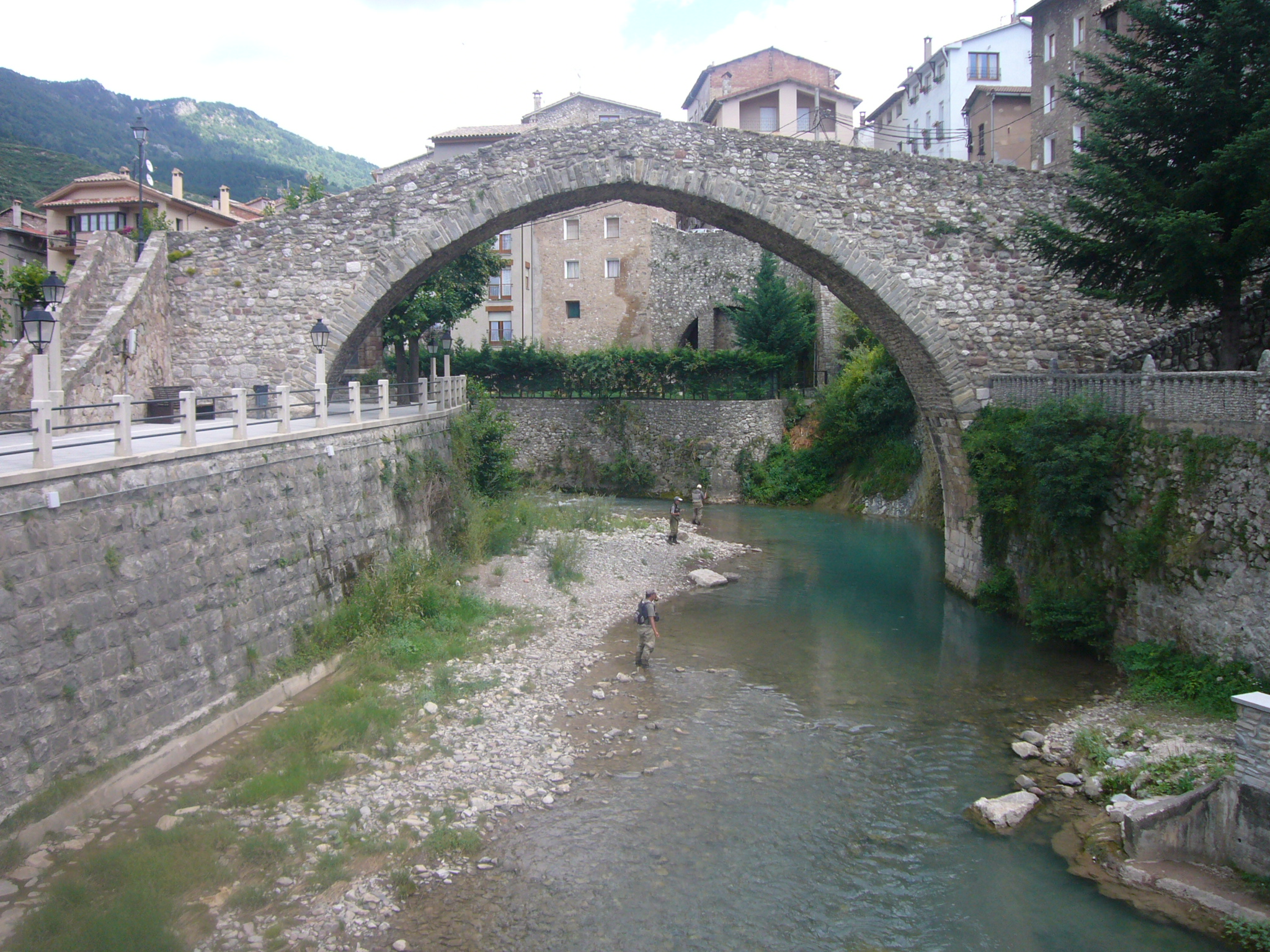 Medieval bridge of La pobla de Lillet, 14th century